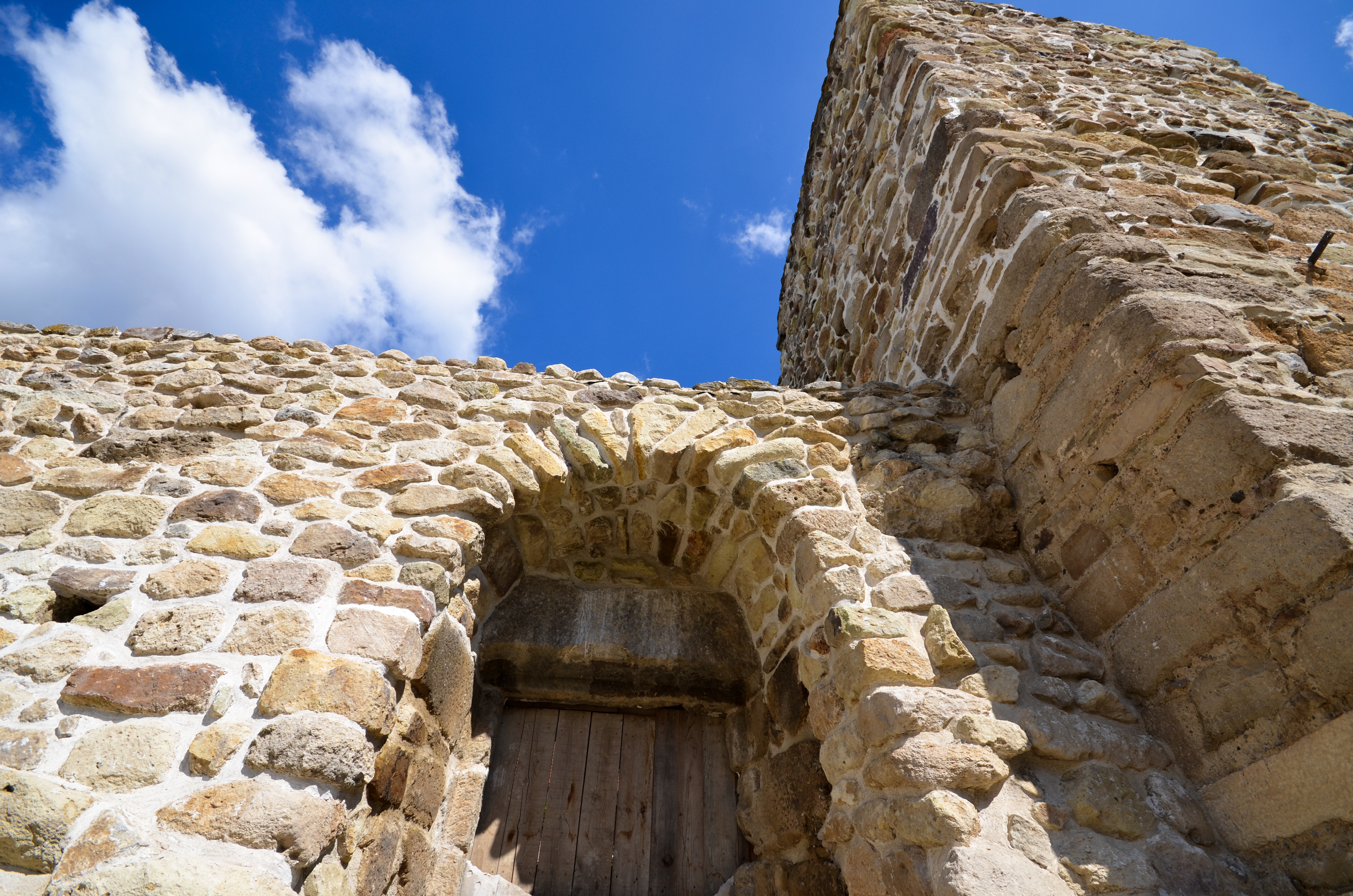 The castle is situated at the city center of Vushtrri , on the road from Prishtina to Mitrovica